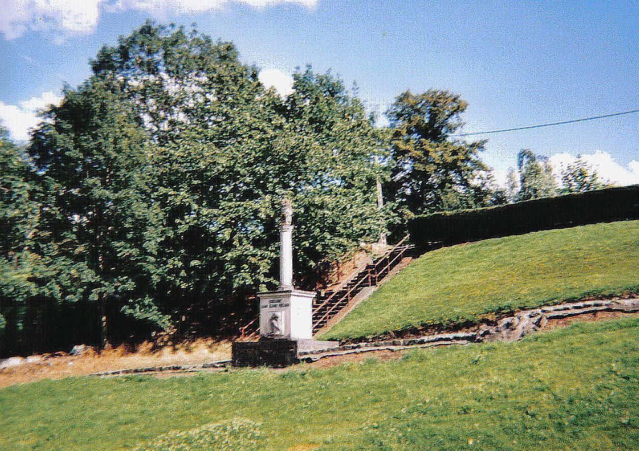 A First World War monument in Edelare, a submunicipality of Oudenaarde, Belgium, standing on the slopes of Edelareberg. The inscription reads 'Edelare aan zijne helden' (Edelare to its heroes).